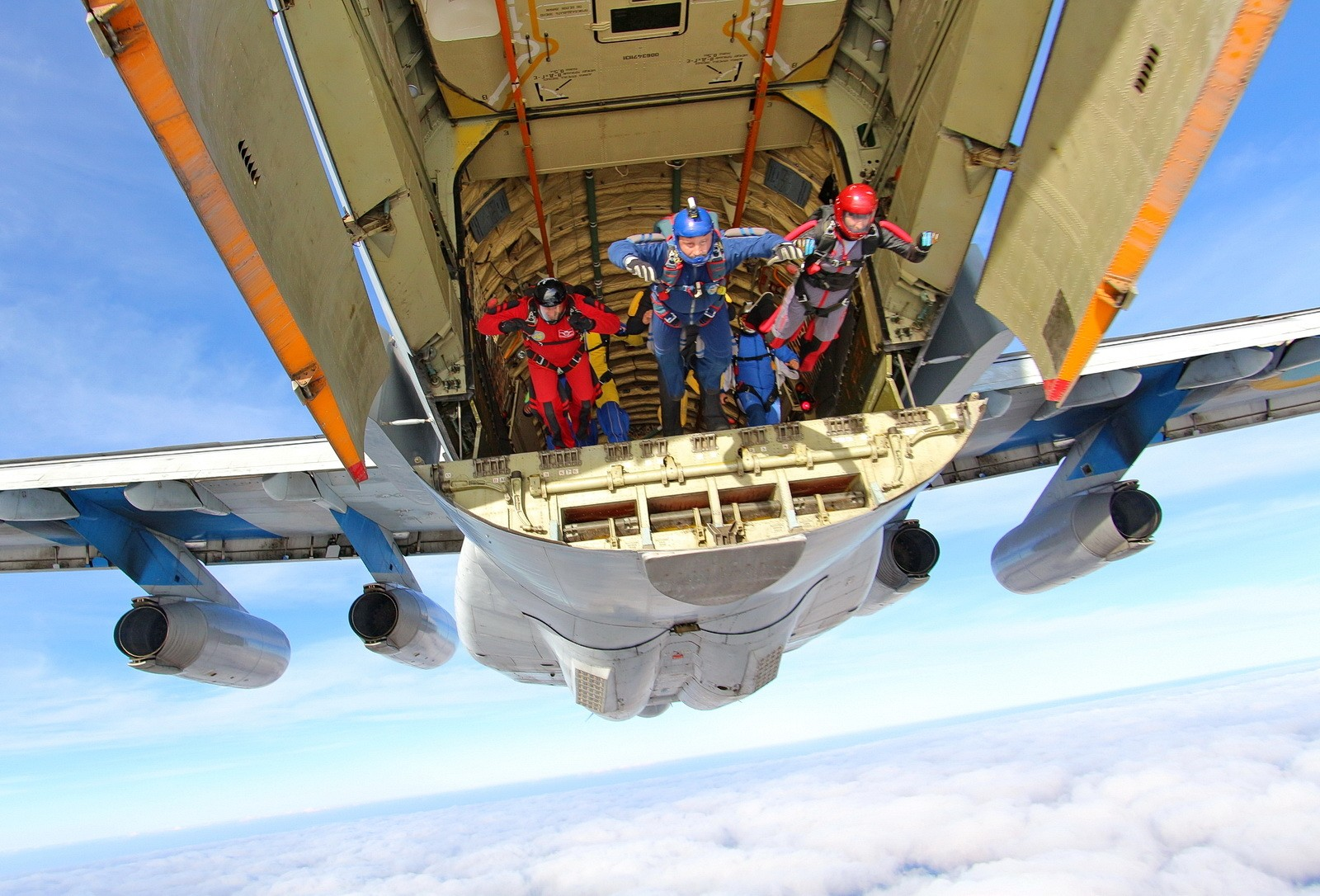 Skydiving from a Ukraine Air Force Ilyushin Il-76MD